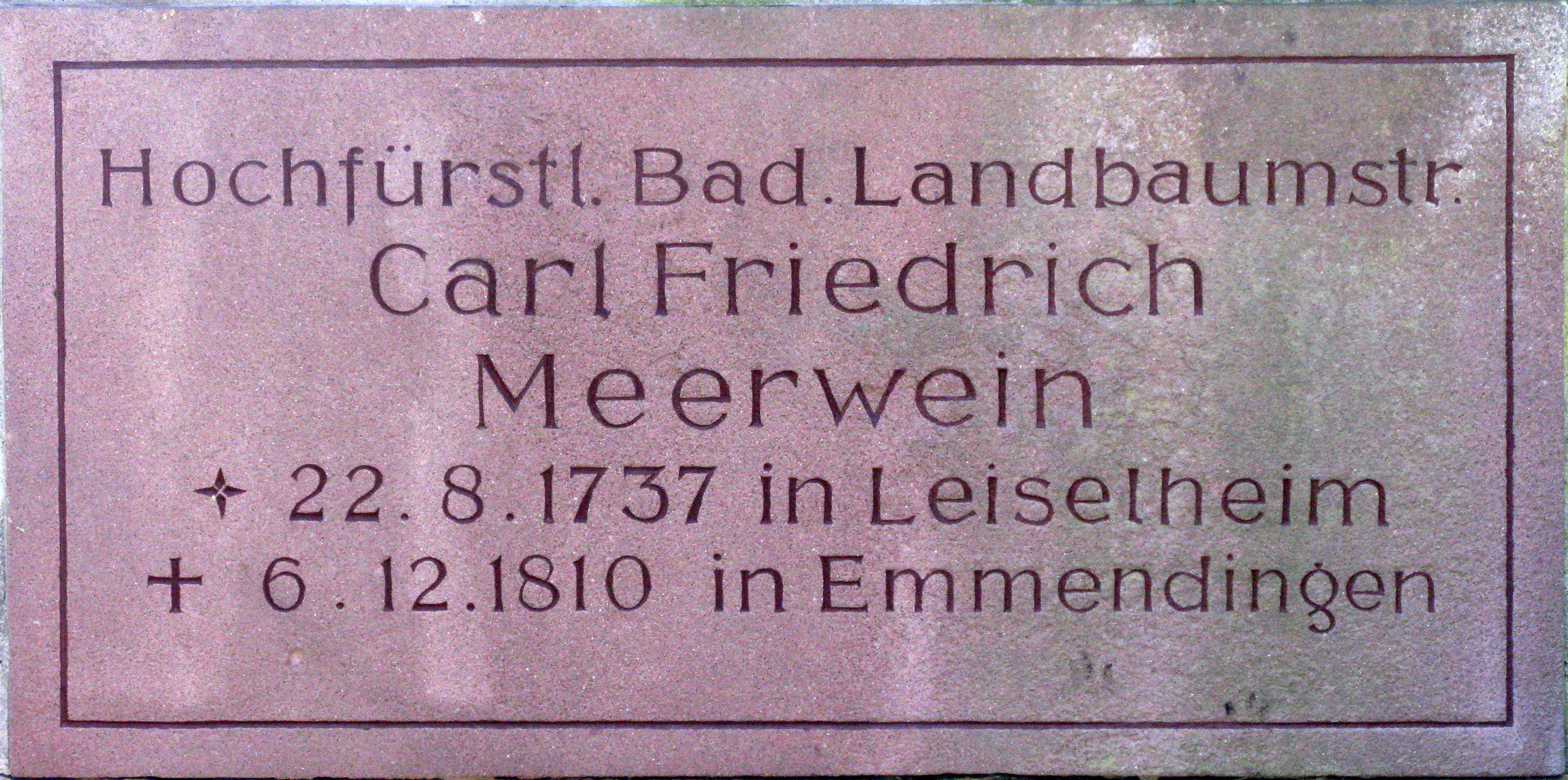 Gravestone of Carl Friedrich Meerwein on the old cemetery of Emmendingen with incorrect date of birth